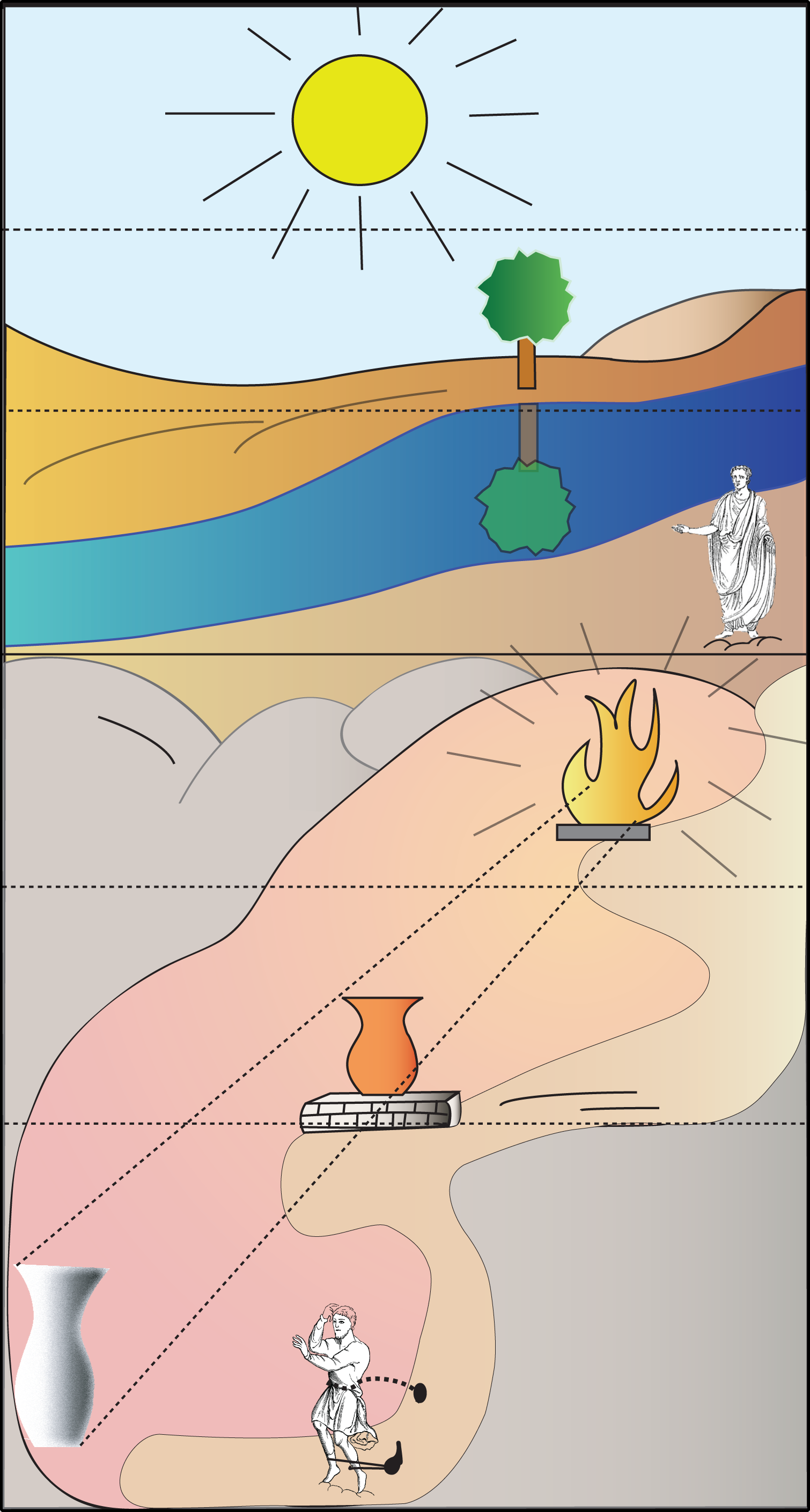 Allegory of the Cave (Plato); Left (From top to bottom): Sun; Natural things; Shadows of natural things; Fire; Artificial objects; Shadows of artificial objects; Analogy level. Right (From top to bottom): "Good" idea, Ideas, Mathematical objects, Light, Creatures and Objects, Image, Metaphor of the sun and Analogy of the divided line